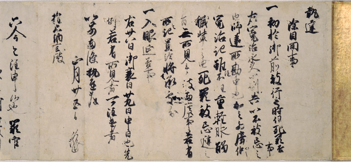 Draft Letter by Fujiwara no Tadamichi (藤原忠通筆書状案, Fujiwara no Tadamichi hitsushojōan). One of 25 letters composed as a style manual for letter writing. Part of one handscroll, ink on paper, 31.2 cm × 980.3 cm (12.3 in × 385.9 in) located at Kyoto National Museum, Kyoto. The scroll has been designated as National Treasure of Japan in the category ancient documents.